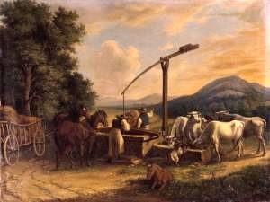 Watering